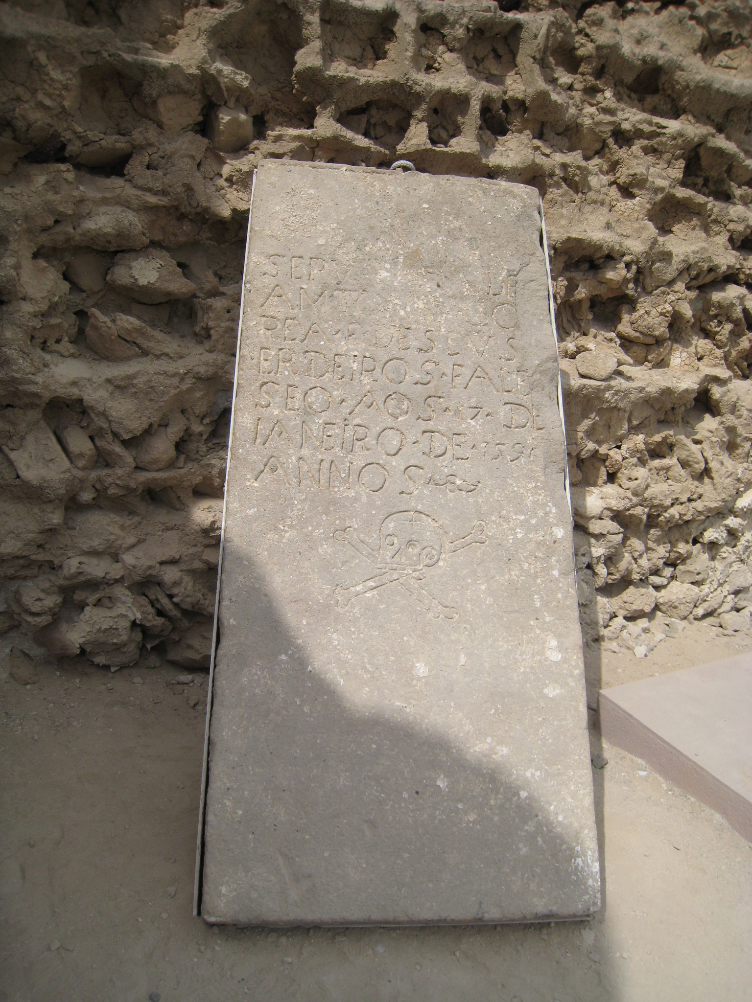 Tomb stone in Portuguese castle, Qeshm, Iran. The inscription in archaic Portuguese reads: Sepu[ltura] de Amton[io] Corea e de seus erdeiros. Faleseo aos 17 de janeiro de 1591 annos Grave of Antonio Correa and his heirs. He died on January 17, of the year 1591